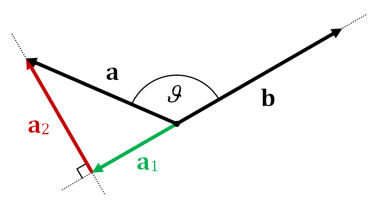 Projection of a on b (a1), and rejection of a from b (a2).